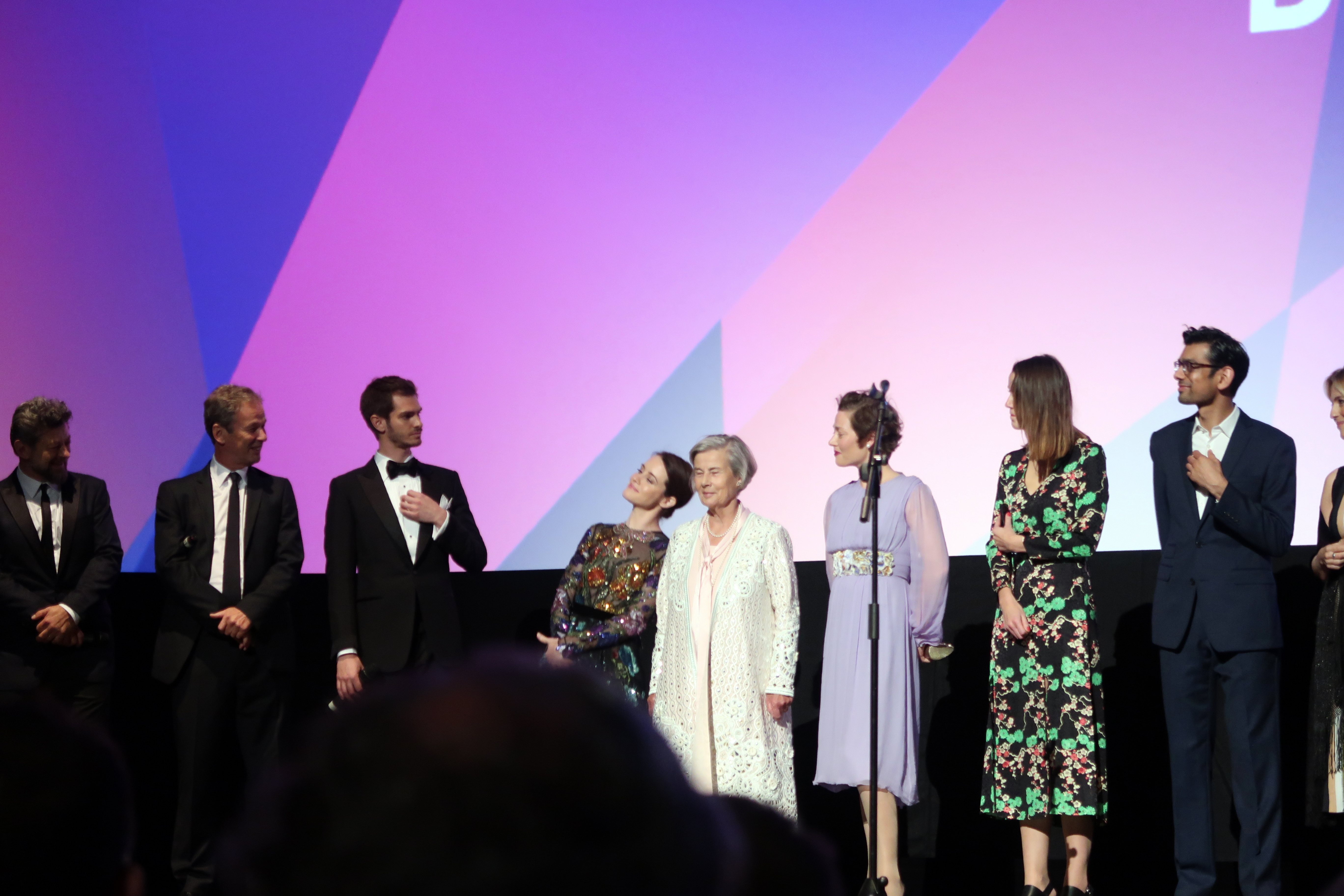 In the centre: Claire Foy and the woman she plays in Breathe, Diana Cavendish